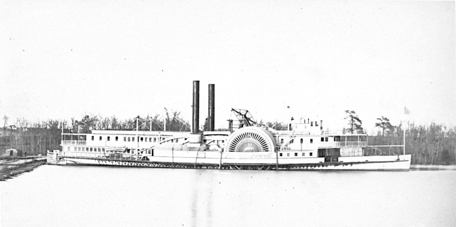 The steamboat Thomas Powell at Broadway Landing, Appomattox River, Virginia, in January 1865, during or shortly after her American Civil War service.